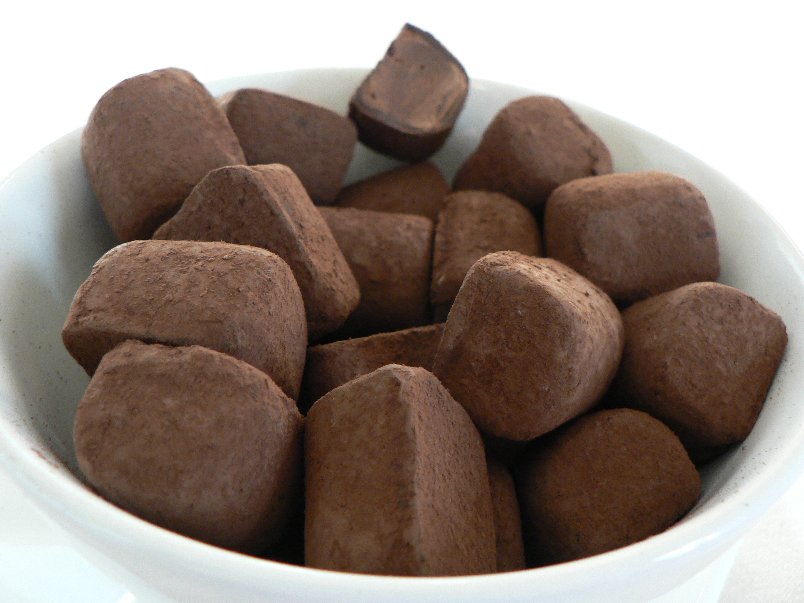 Chocoladetruffels Lindt (France-Switzerland) - - own picture